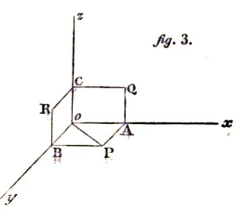 Figure from Mary Somerville's Mechanism of the heavens. Book in the Public Domain